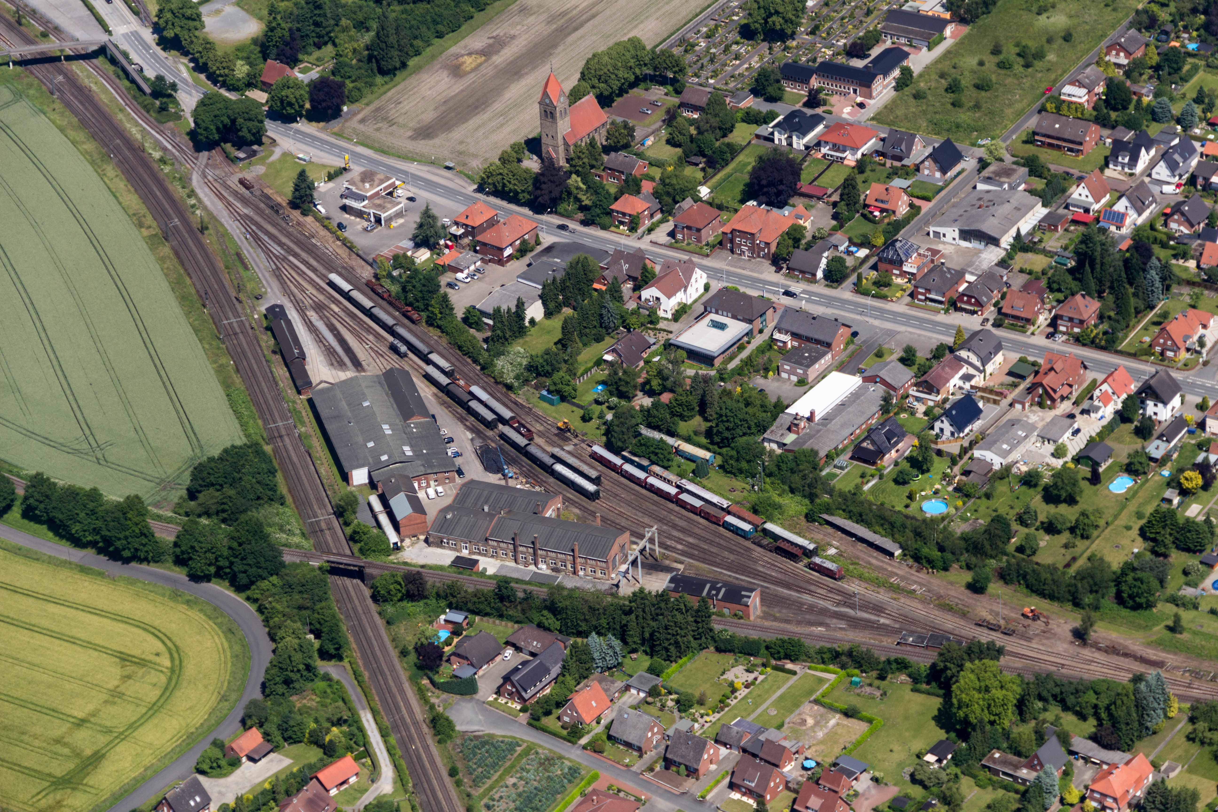 Freight depot, Lengerich, North Rhine-Westphalia, Germany